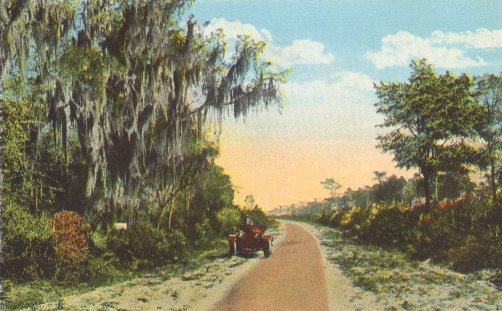 Anderson Highway, Florida, c. 1914. Postcard view showing automobile and single brick paved lane. Spanish moss hangs from trees.